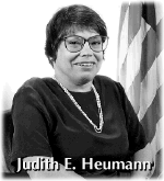 Portrait of Judith E. Heumann (born 1947)